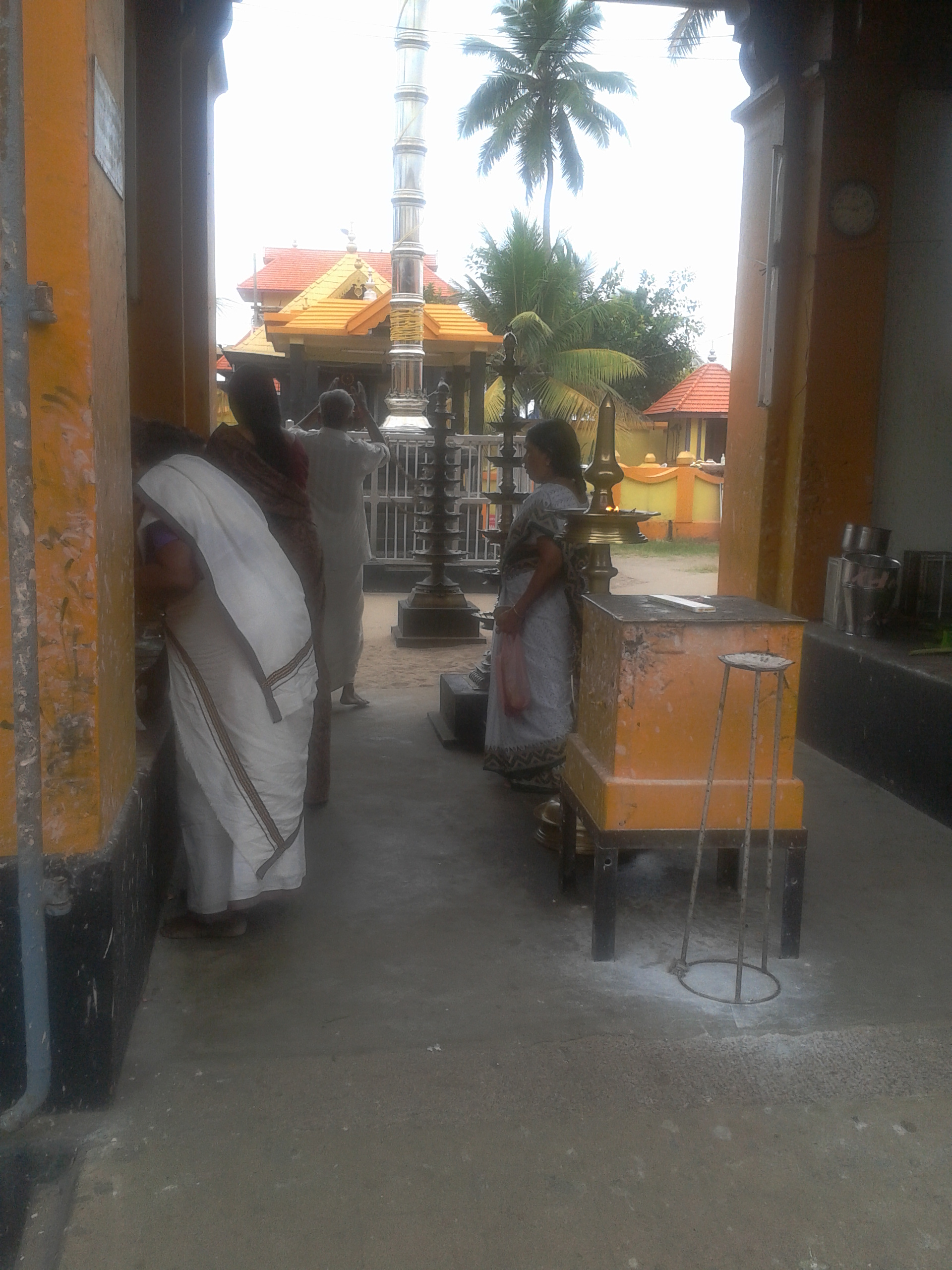 An old temple in Cheriazheekal, Karunagappally, Kollam Dst.